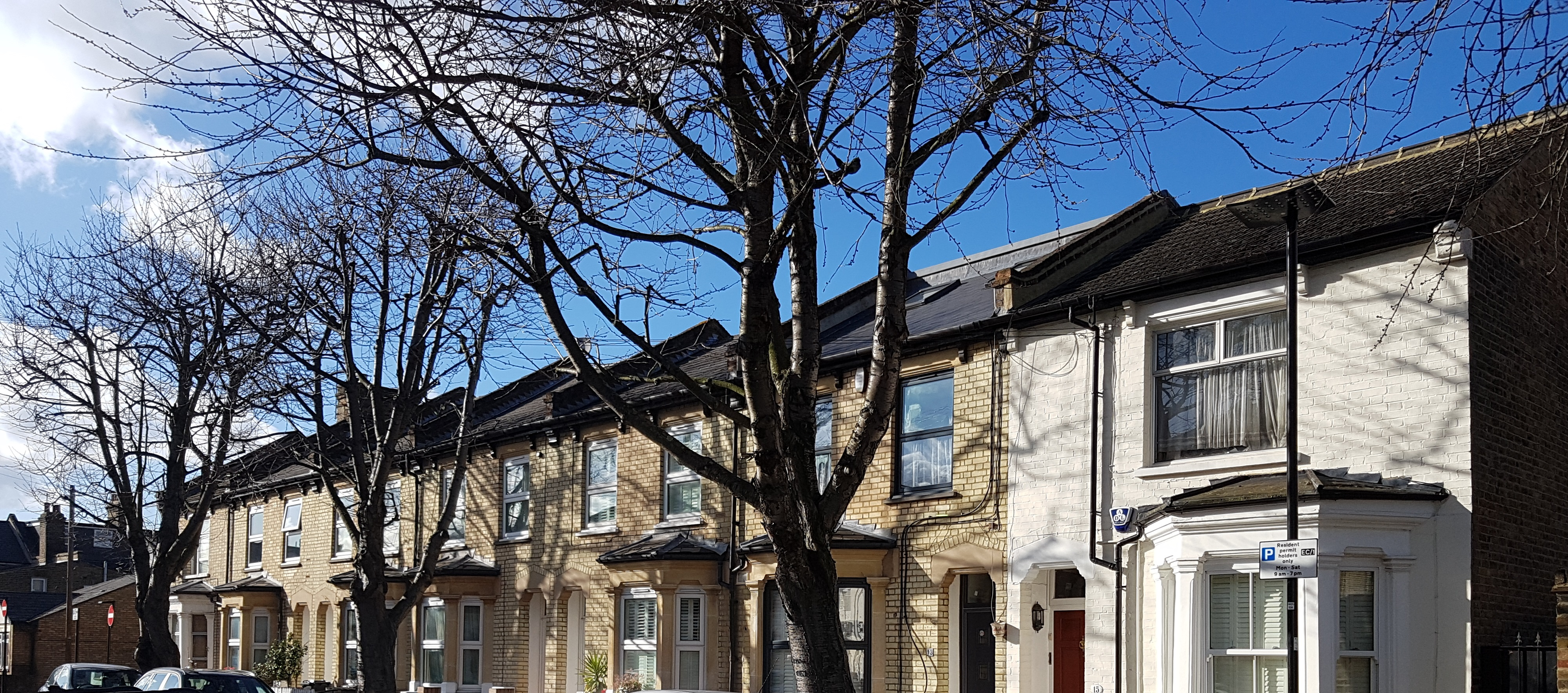 Housing